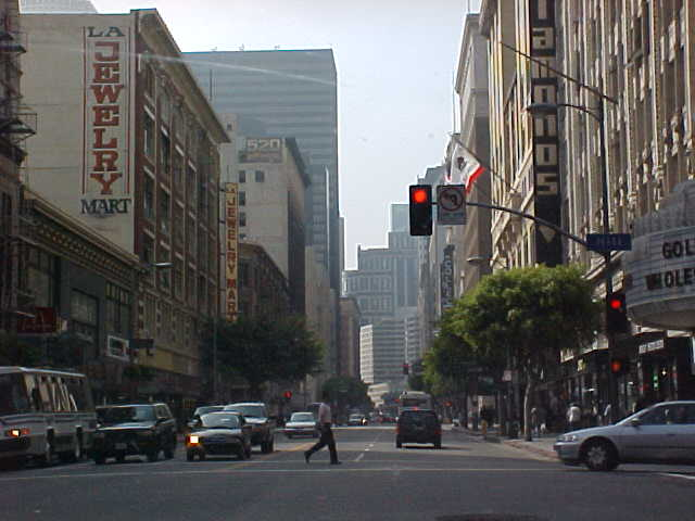 Street level in the Jewelry District. Taken on Seventh Street, facing West and the Financial District. Photo taken by Bobak Ha'Eri, May 28, 2001. Please observe license and properly cite in use outside Wikipedia. ]